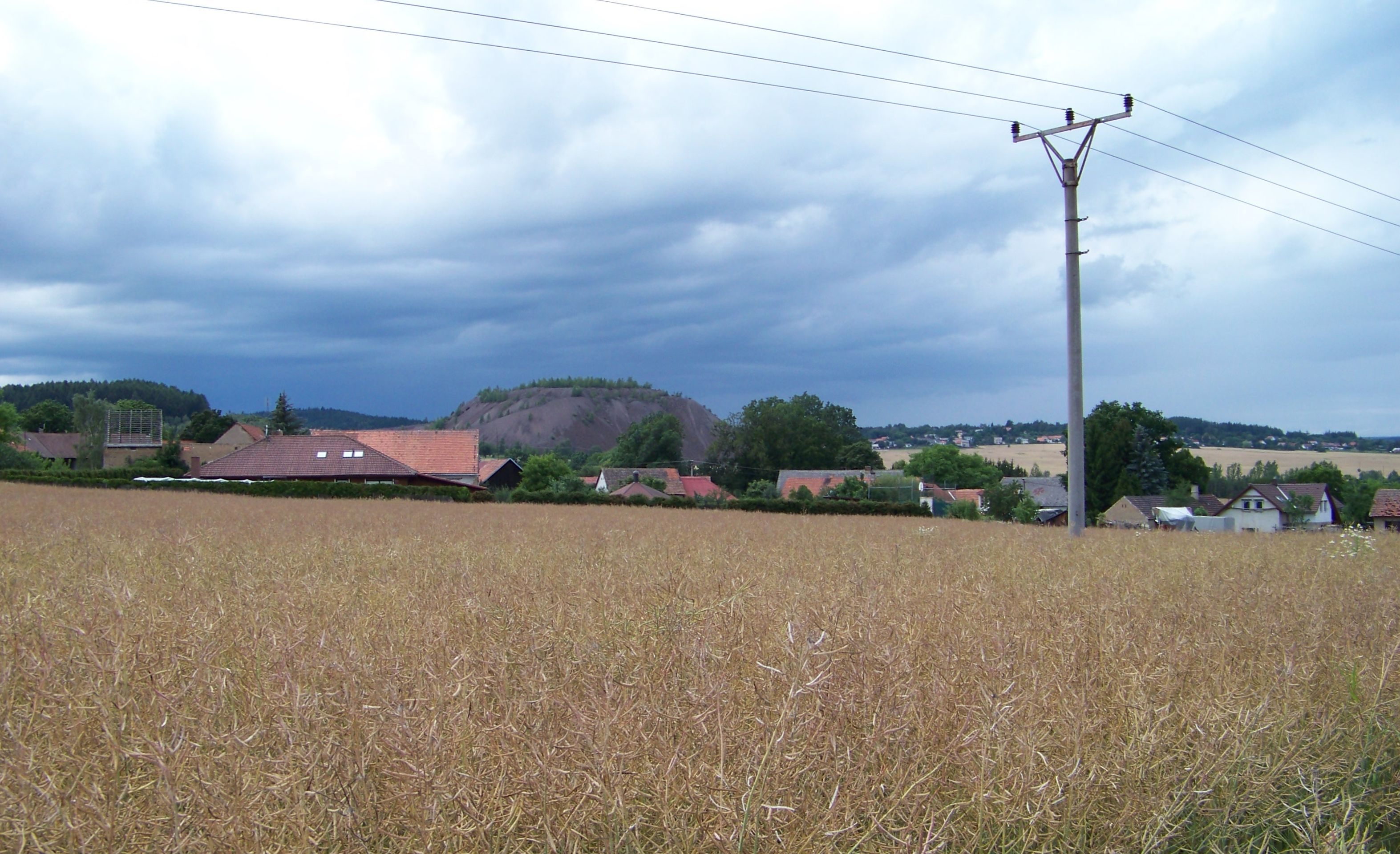 Lešetice, Příbram District, Central Bohemian Region, the Czech Republic. The village and a slag heap.